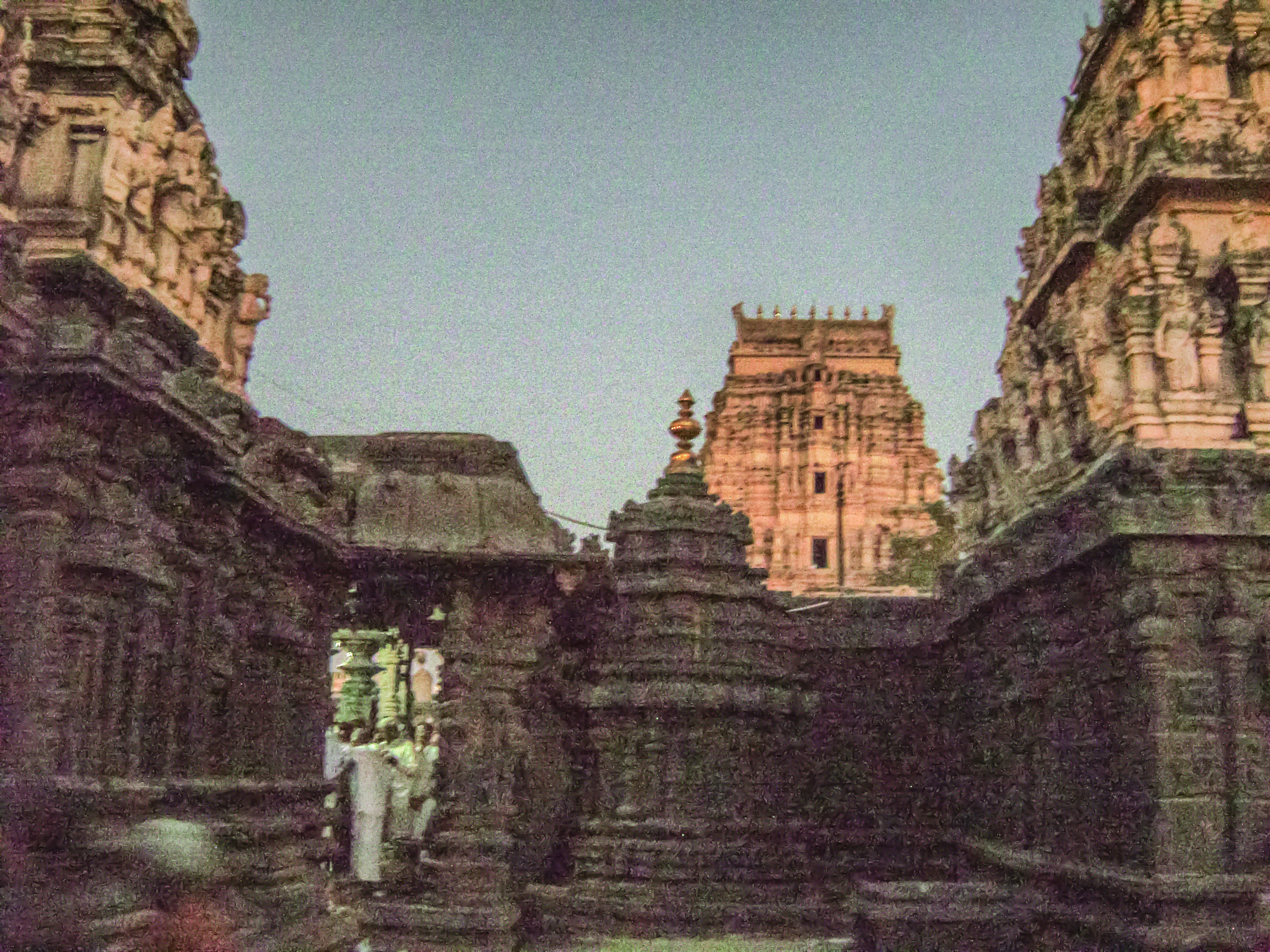 Chintalarayaswami temple